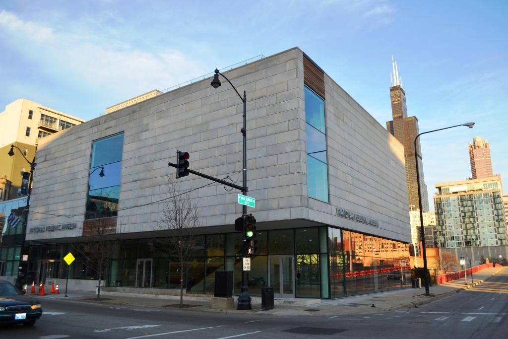 The finished National Hellenic Museum